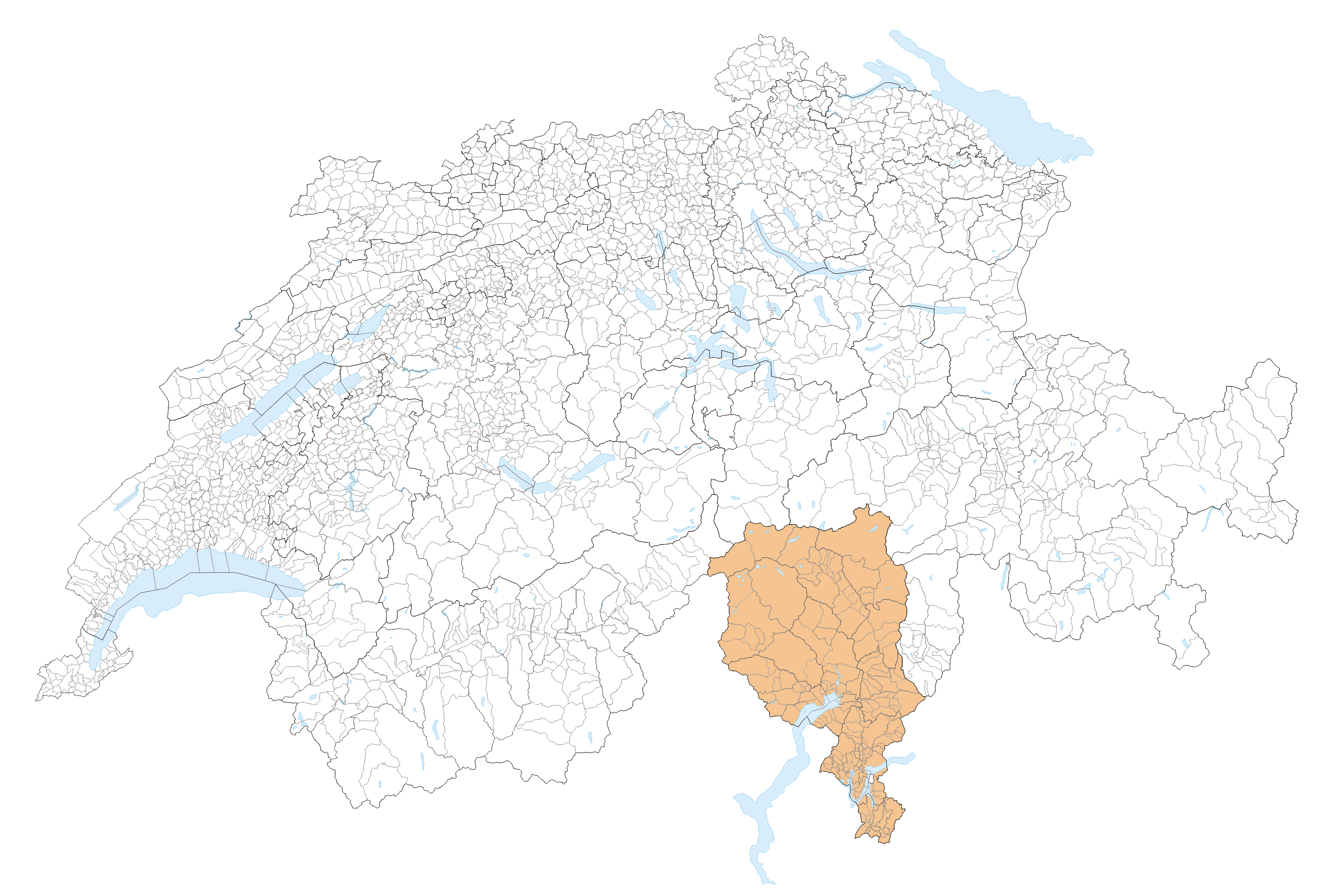 Kanton Tessin